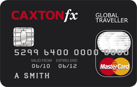 Caxton FOX prepaid MasterCard Global Traveler card.